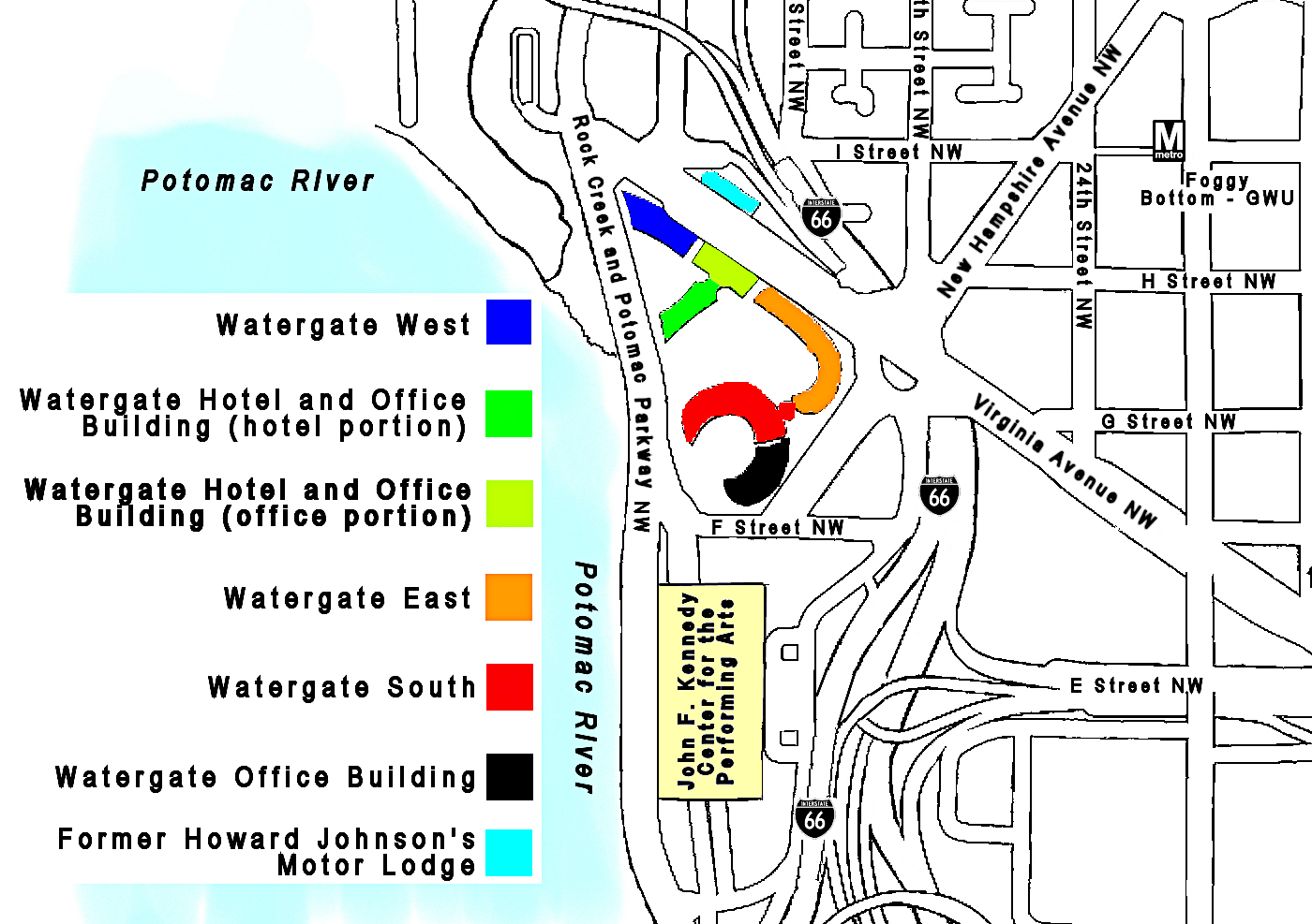 Map of the Watergate complex in the Foggy Bottom neighborhood of Washington, D.C. The map shows the location of the five buildings in the complex, as well as the former Howard Johnson's Motor Lodge (across the street) and the nearby John F. Kennedy Center for the Performing Arts.